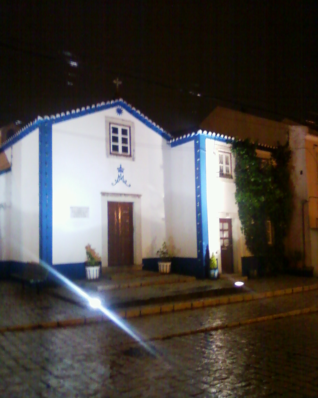 Chapter of Our Lady of the Cape (Algés)